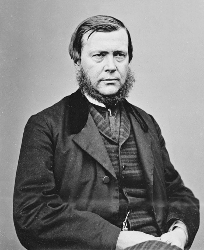 Robert King Stone (1822-1872), the doctor who served U.S. President Abraham Lincoln